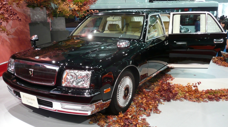 Toyota Premium Century